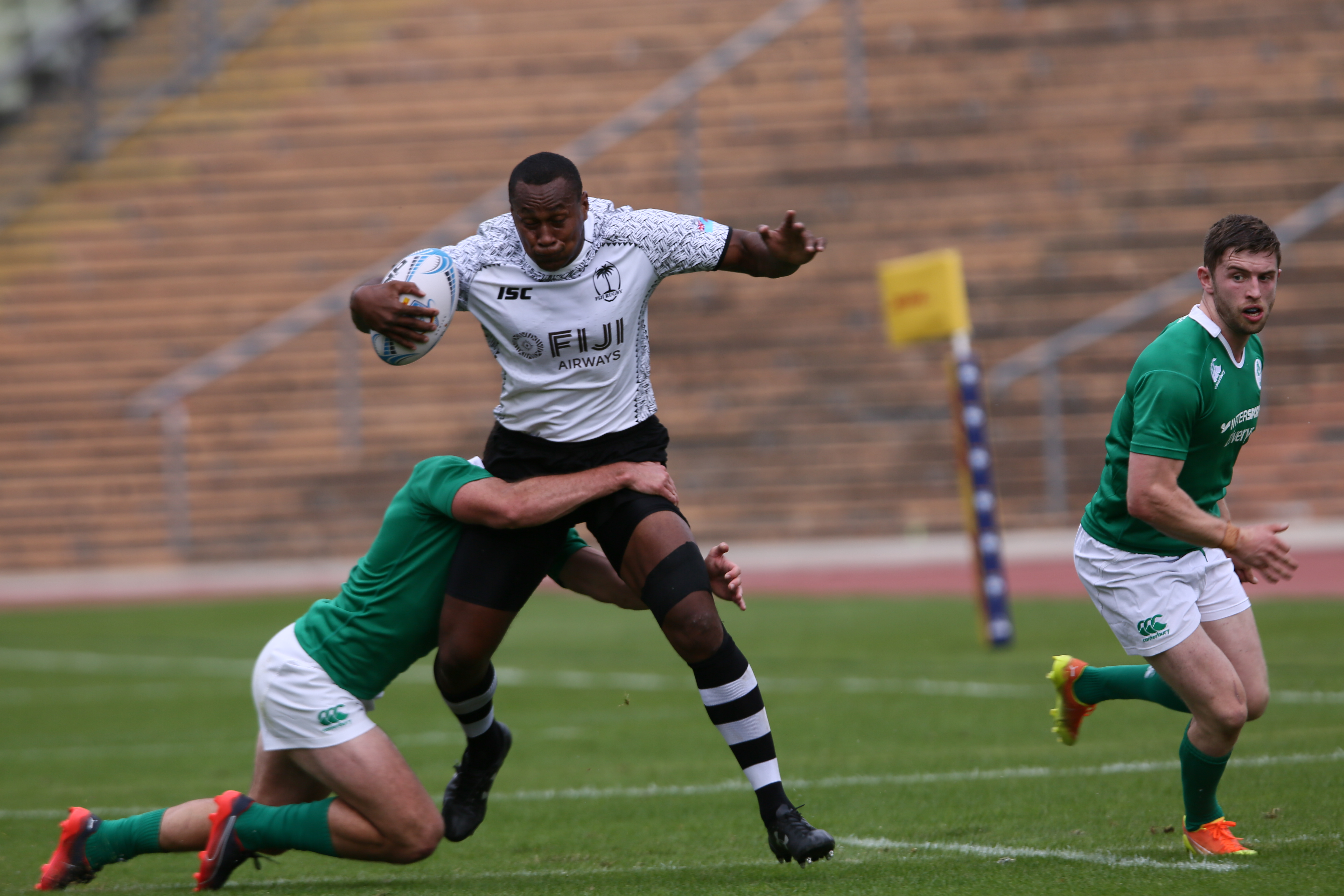 Rugby tournament "Oktoberfest 7s", Munich, 2017-09-29/30 at the Olympic stadion of Munich.